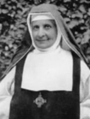 M. Marie de Saint Pierre (Adèle Garnier; 1838-1924)